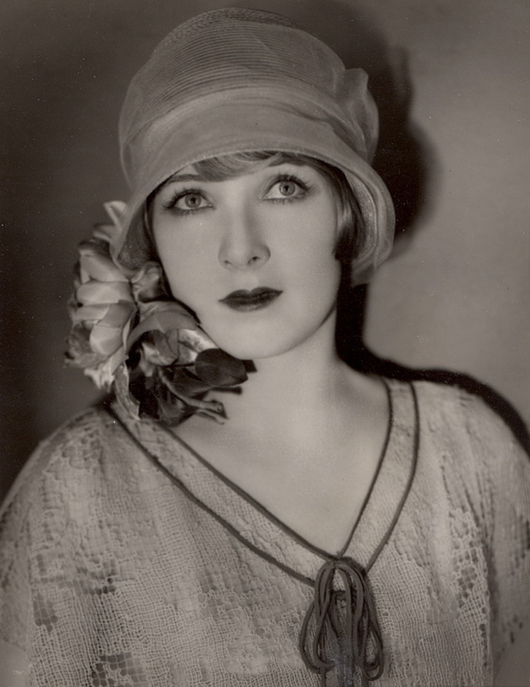 1926 portrait of American actress Claire Windsor by photographer Clarence Sinclair Bull.